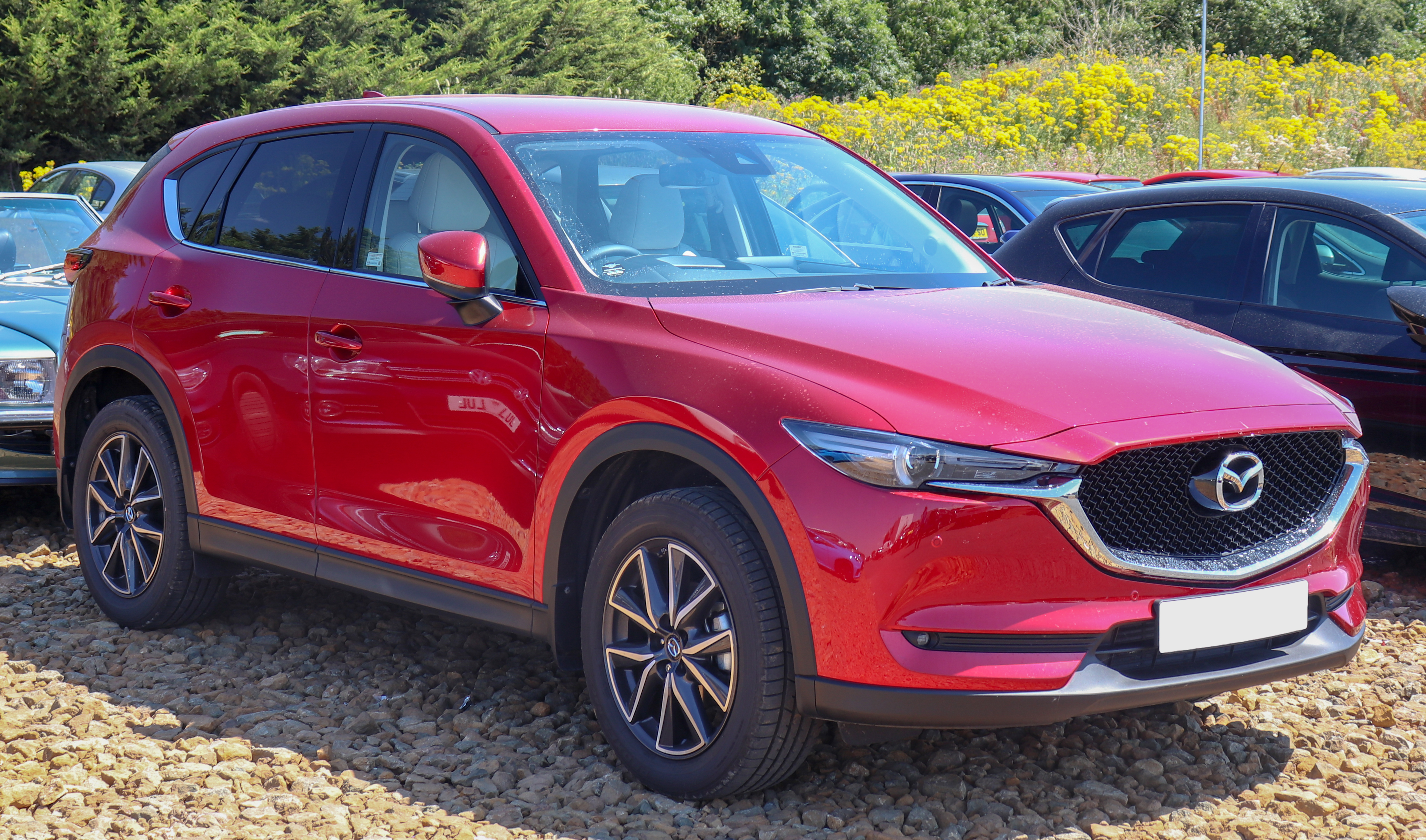 2018 Mazda CX-5 Sport Nav Diesel Automatic 2.2 Taken at the British Motor Museum Old Ford Rally 2018, Gaydon